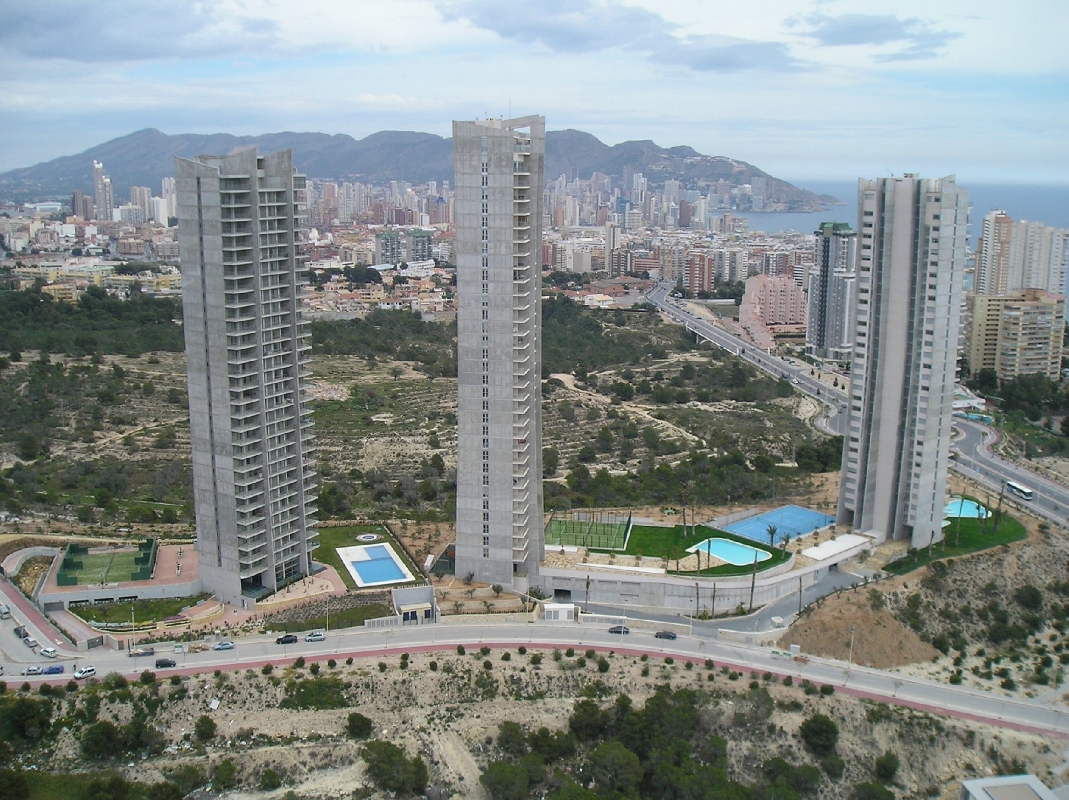 Miragolf